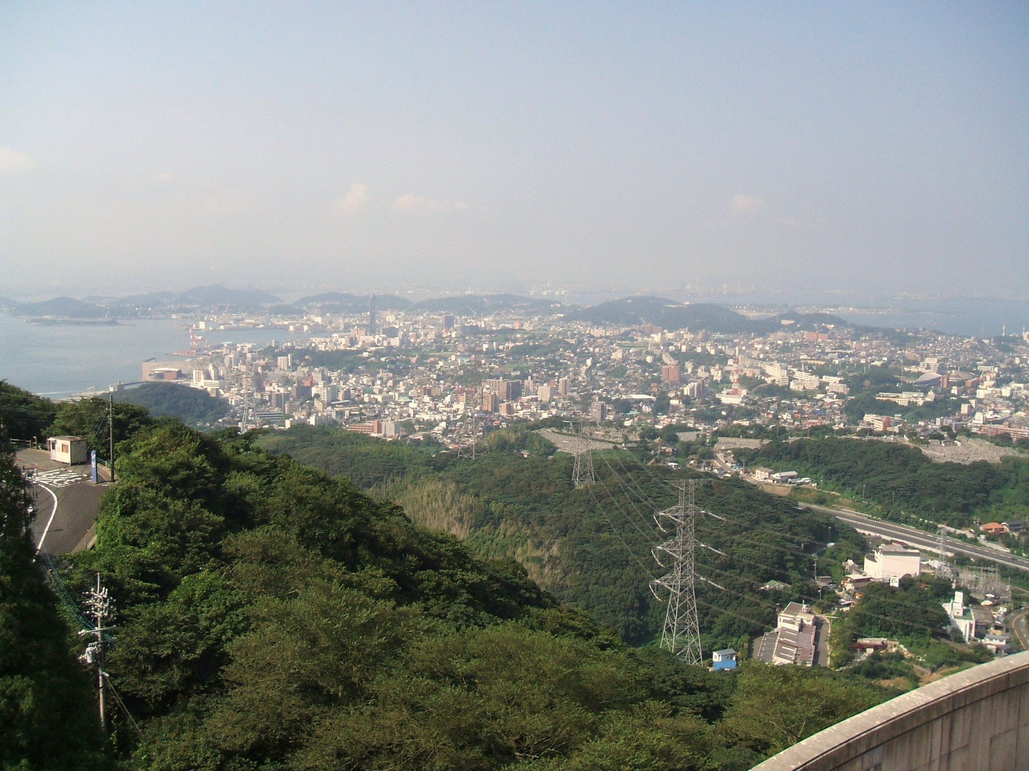 Shimonoseki City from Mt.Hinoyama